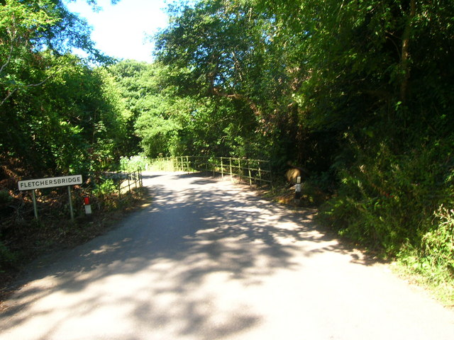 Fletchersbridge The stream comes in from the left.